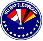 Emblem of the Weimar Battlegroup or EU BG I/2013. It consists of the flags of France, Poland, Germany and the European Union.